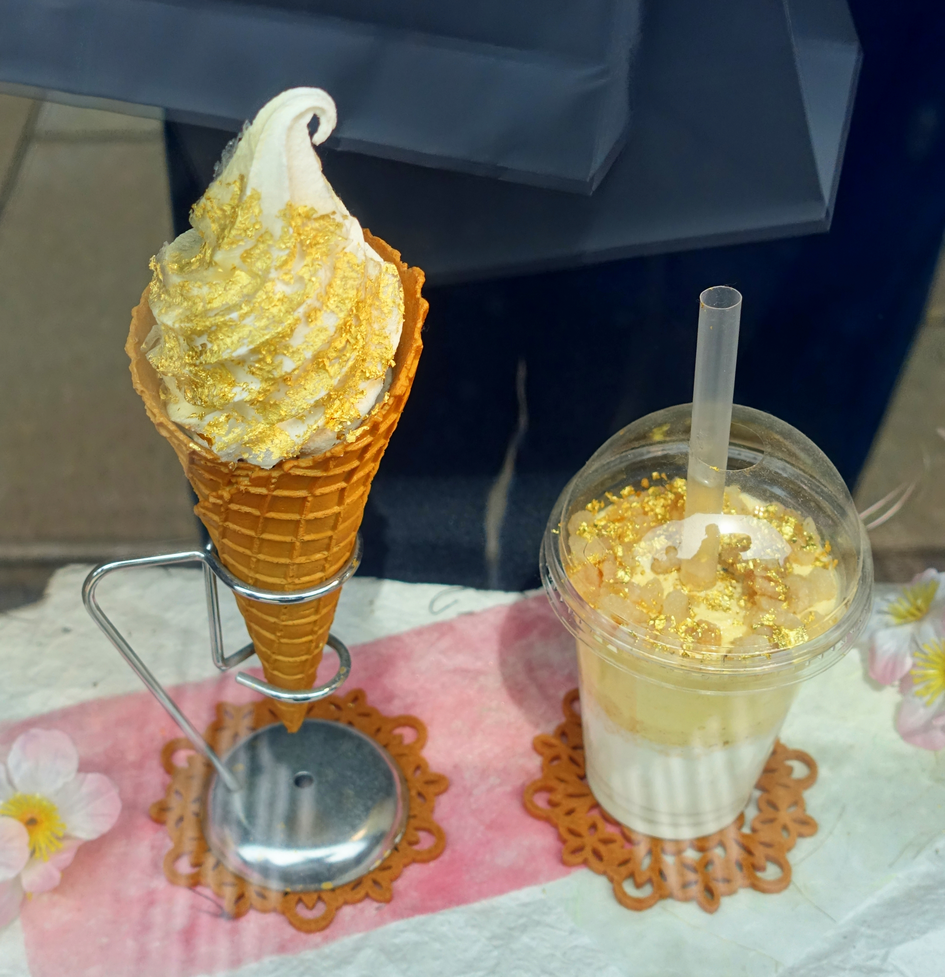 Gold leaf on soft ice cream - Kanazawa, Japan.